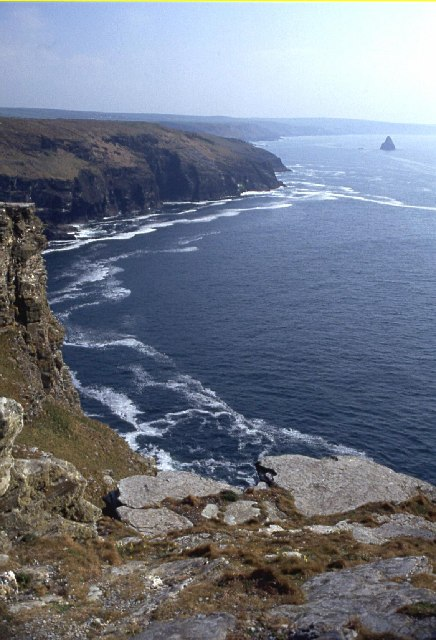 The coast at Tintagel. Taken from the Island, Gull Rock in the distance.